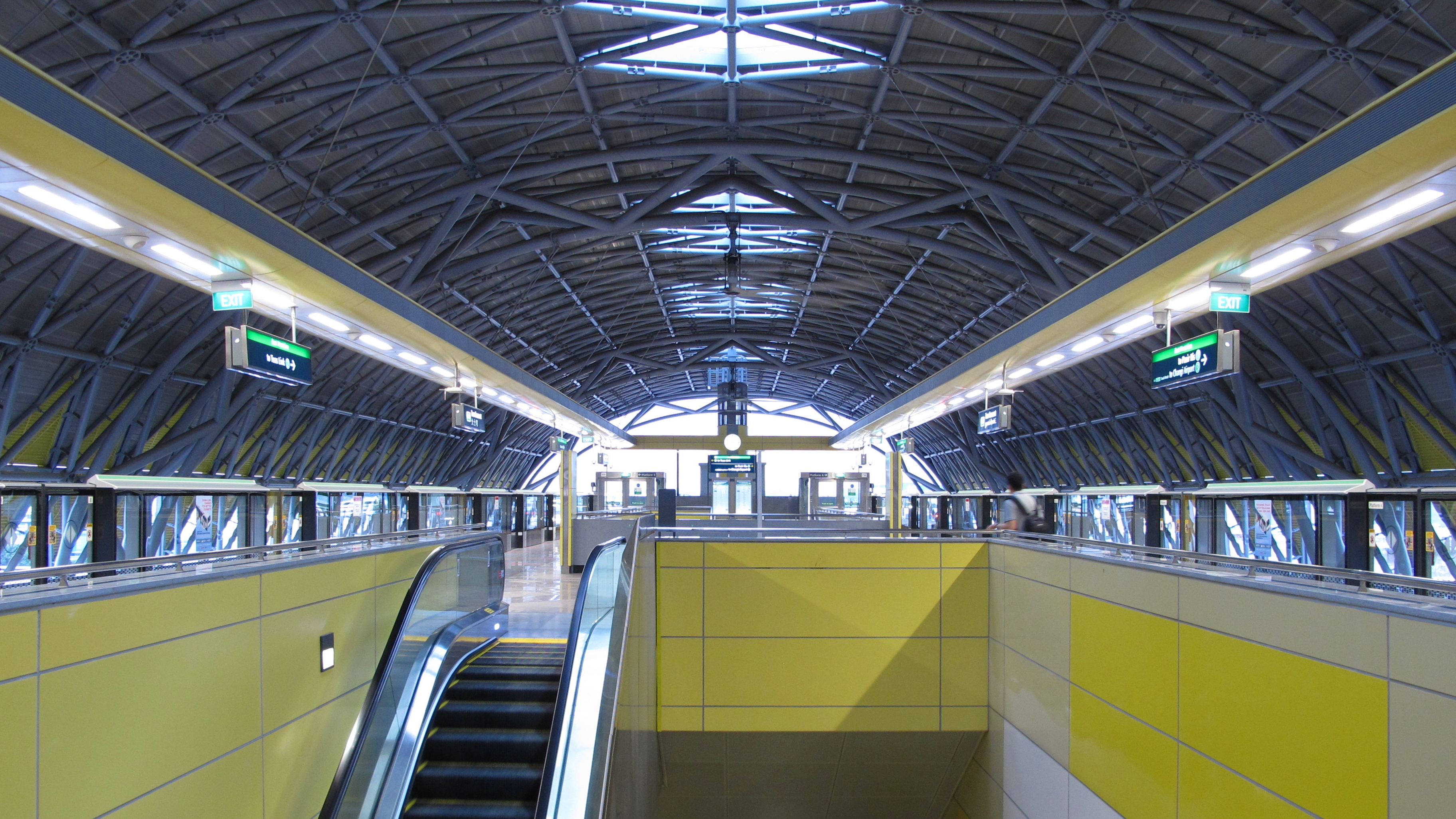 Platform level of Tuas Crescent station